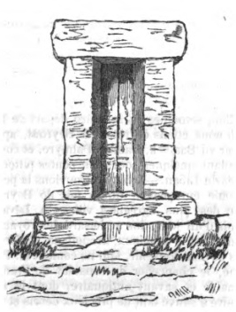 Ancient monument in Al-Qalamoun, composed of three stones. It is described by Melchior de Vogüé as a kind of phoenician dolmen, and by Ernest Renan as a press. There are two of them and a trace of a third one, and they are all aligned. Picture from » Fragments d'un journal de voyage en Orient. Côtes de la Phénicie. » by Charles-Jean-Melchior de Vogüé (p.19)